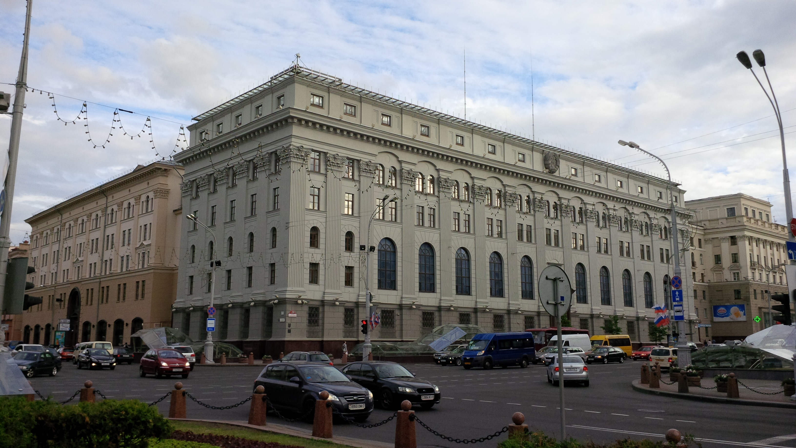 National Bank of Republic Of Belarus Headquarters